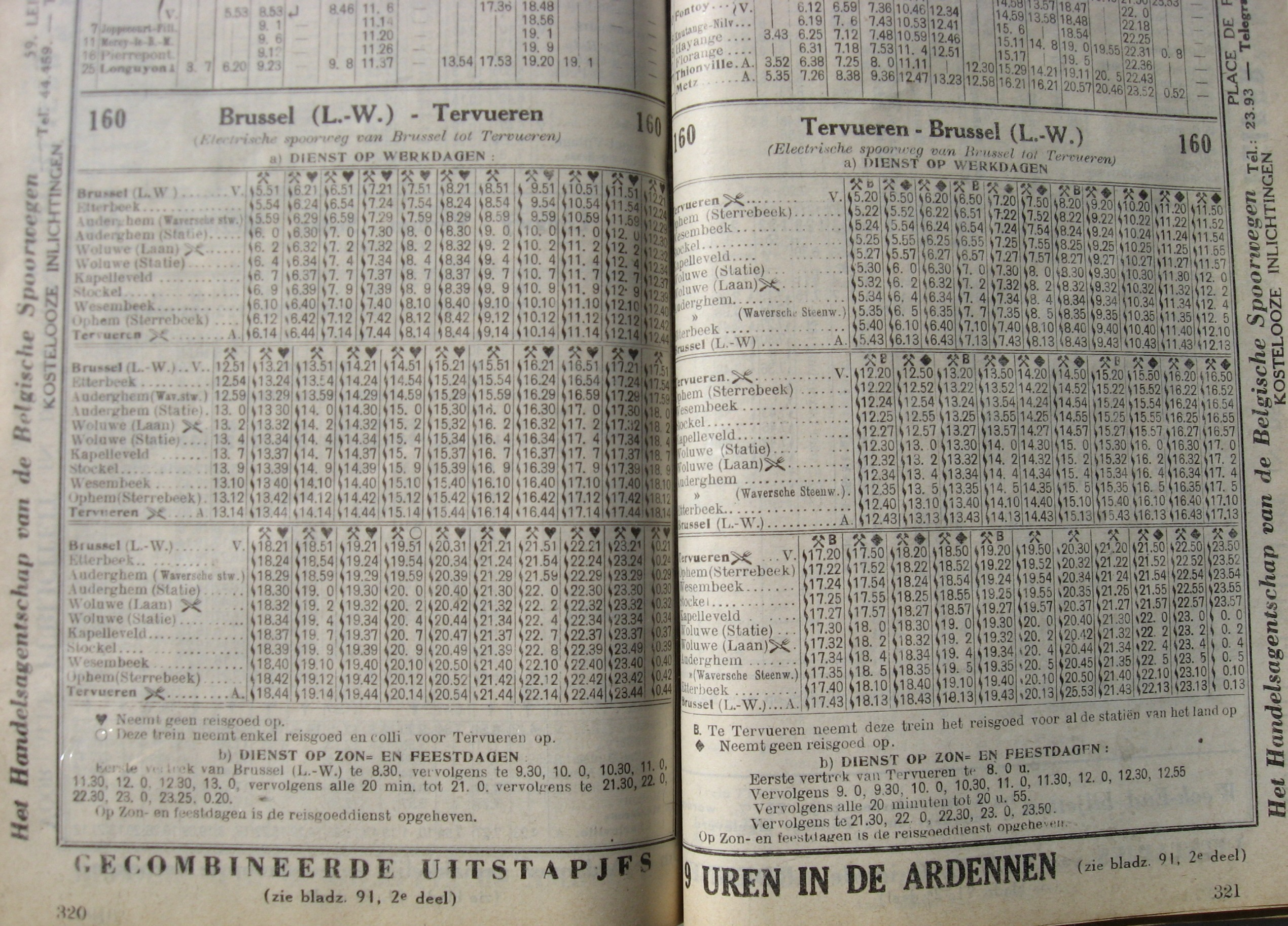 Railway timetable of the line 160, Brussels Tervuren in 1933.